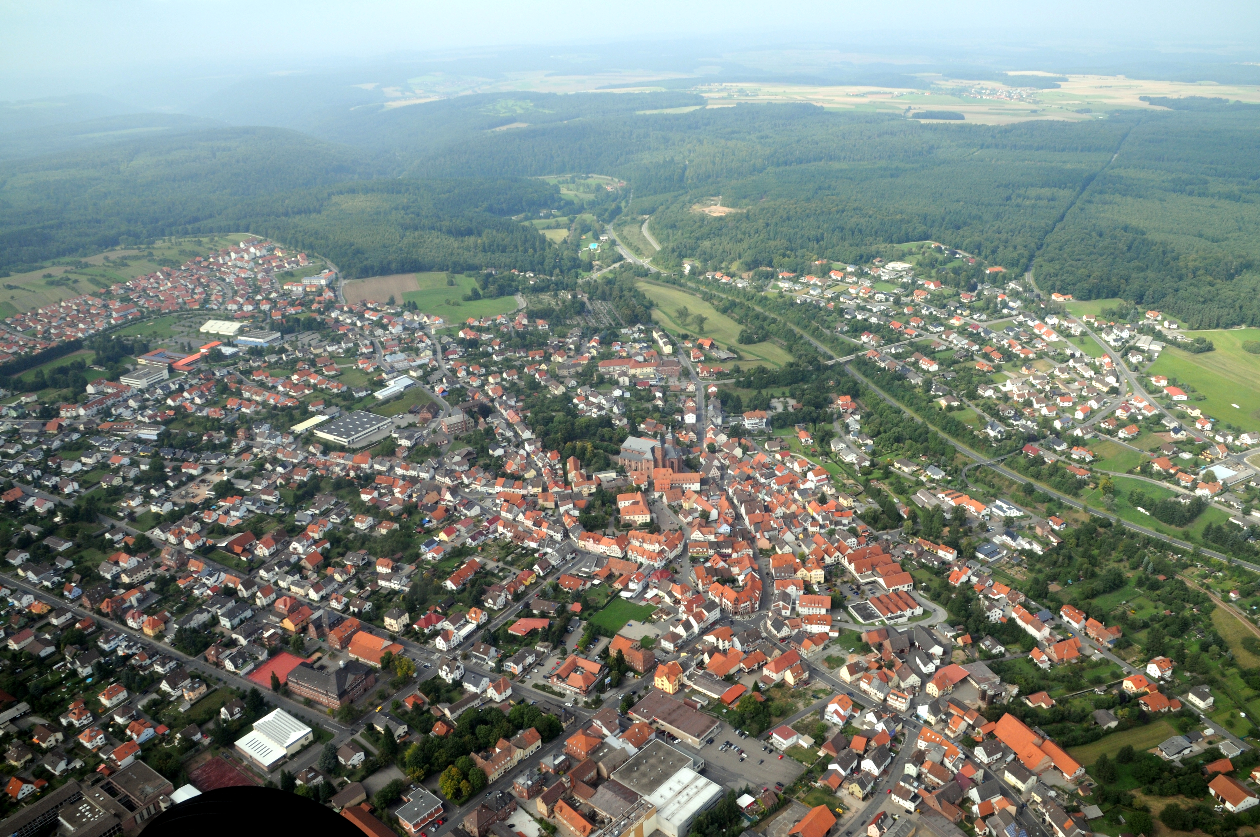 Walldürn, Baden-Württemberg, Germany, aerial photograph